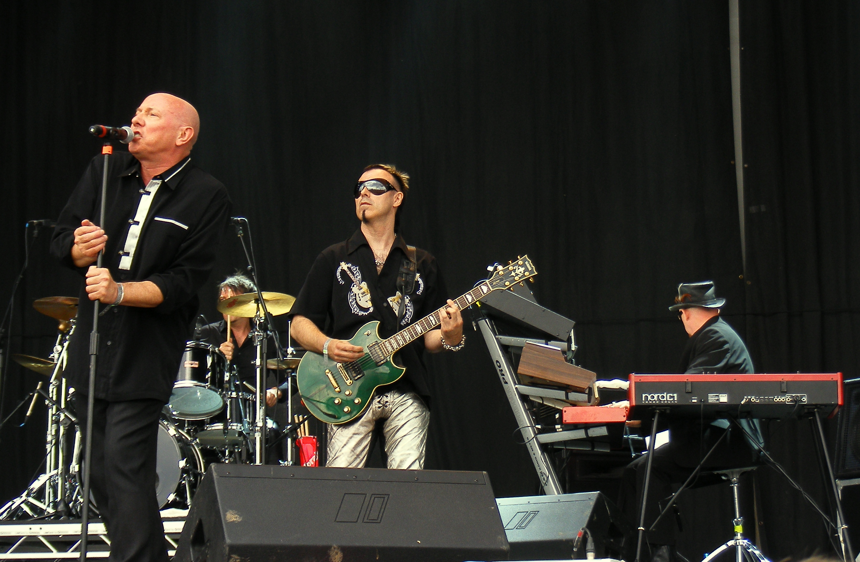 Magazine performing at the Hop Farm Music Festival on Saturday the 2nd of July 2011.